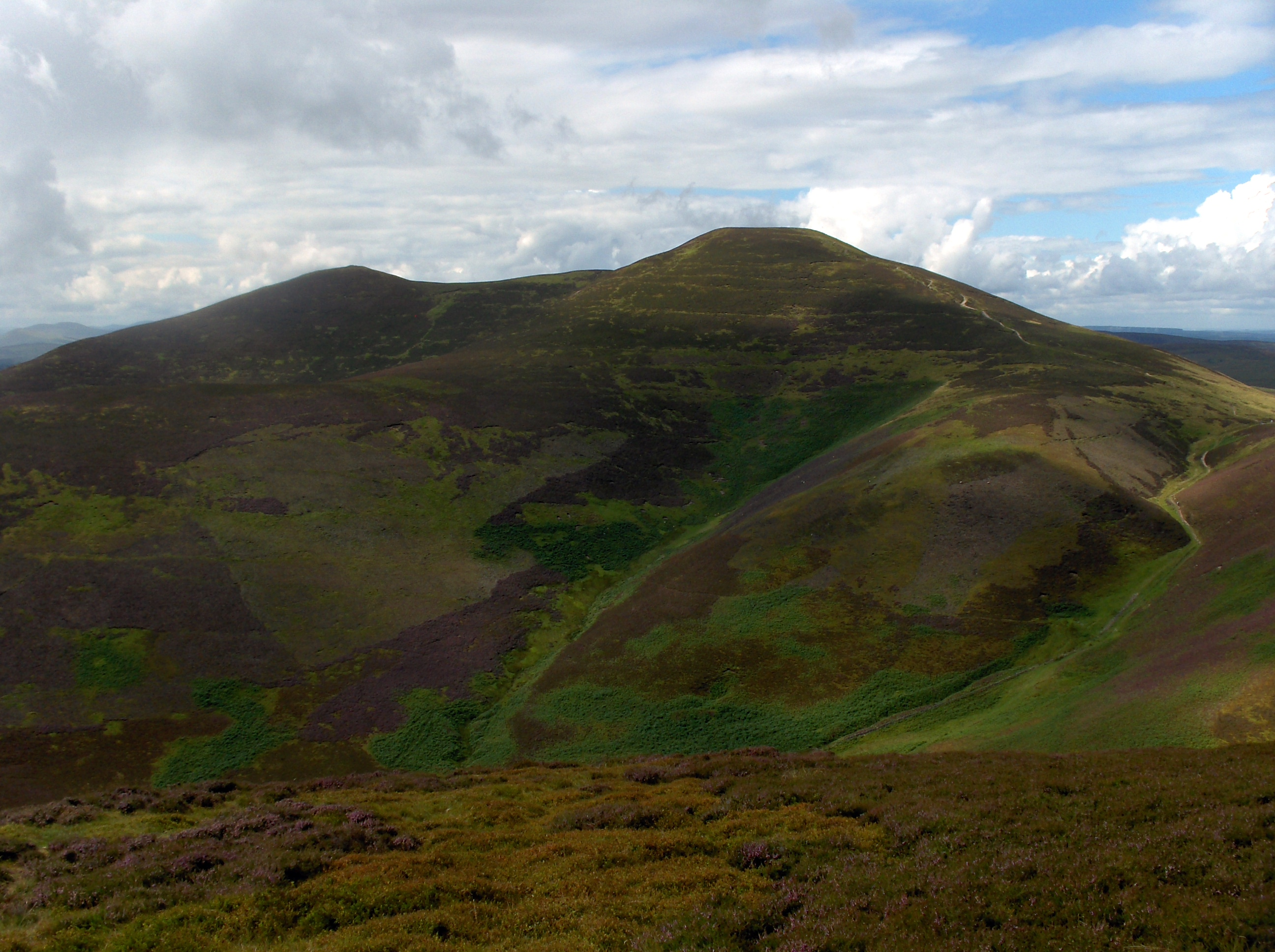 Scald Law in the Pentland Hills, seen from the north-east